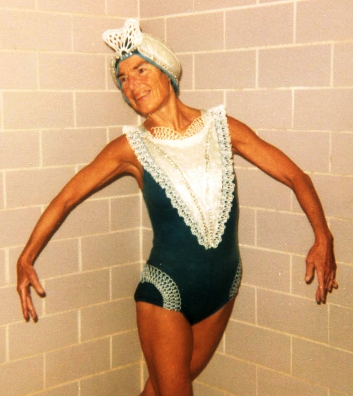 The American synchronized swimmer Beulah Gundling in her routine Claire de Lune to music by Debussy (Midwest Aquatic Art Symposium at Riverside-Brookfield High School - Illinois - April 1981).